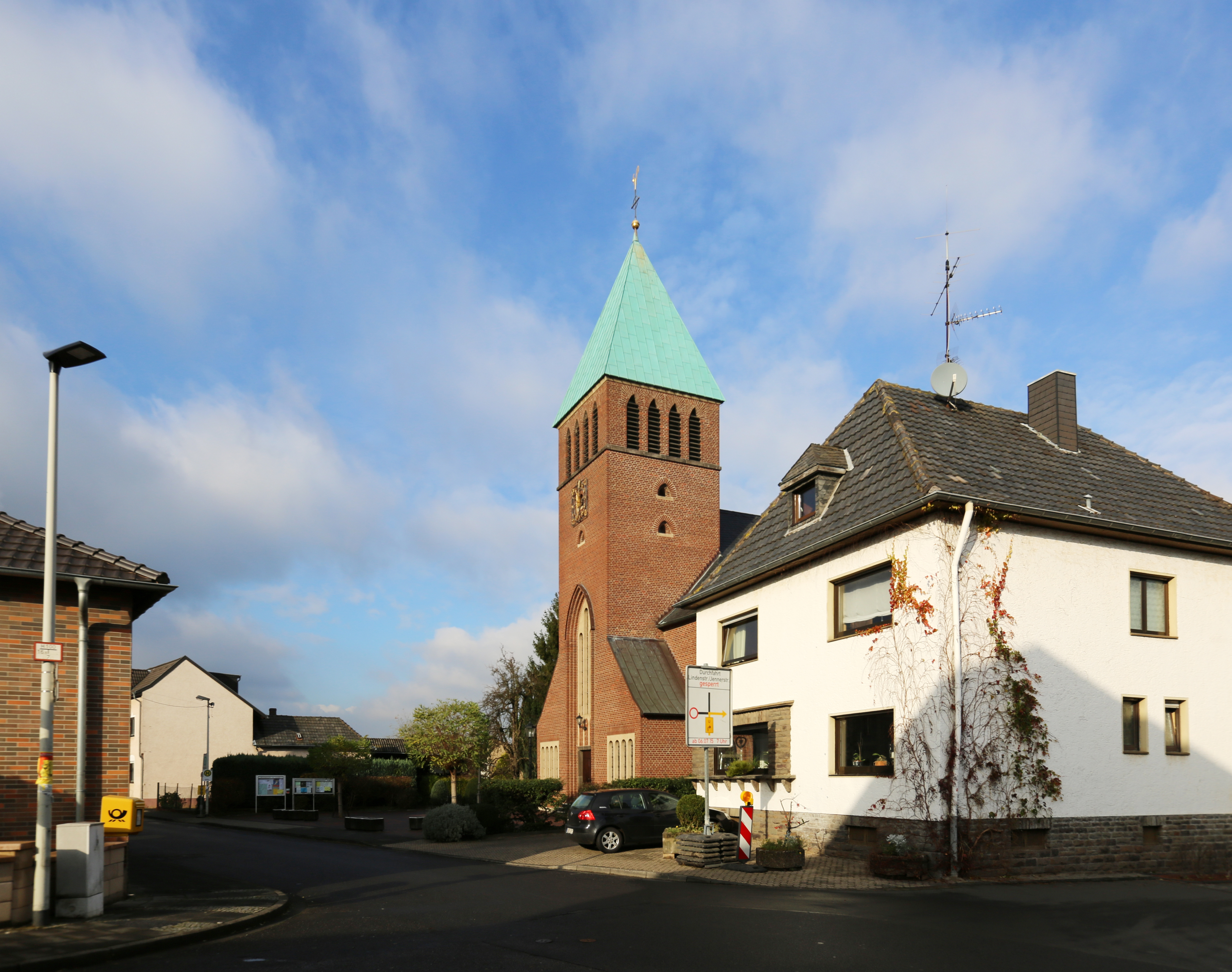 Catholic Parish Church of Saintt Joseph Kardorf (Bornheim), Germany